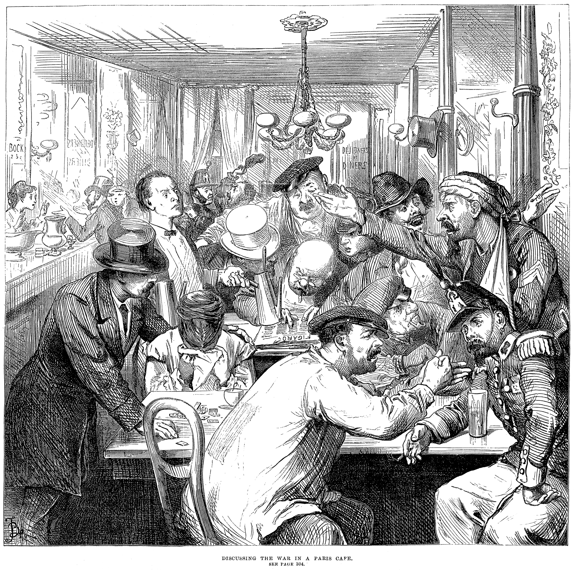 "Discussing the War in a Paris Café" - a scene from the brief interim between the Battle of Sedan and Siege of Paris during the Franco-Prussian War